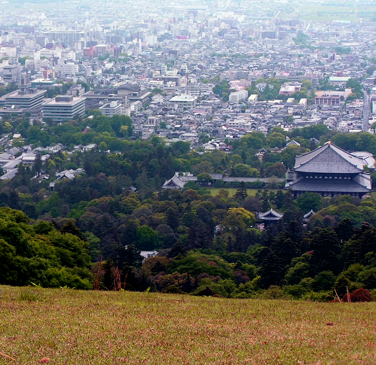 A view over the city of Nara